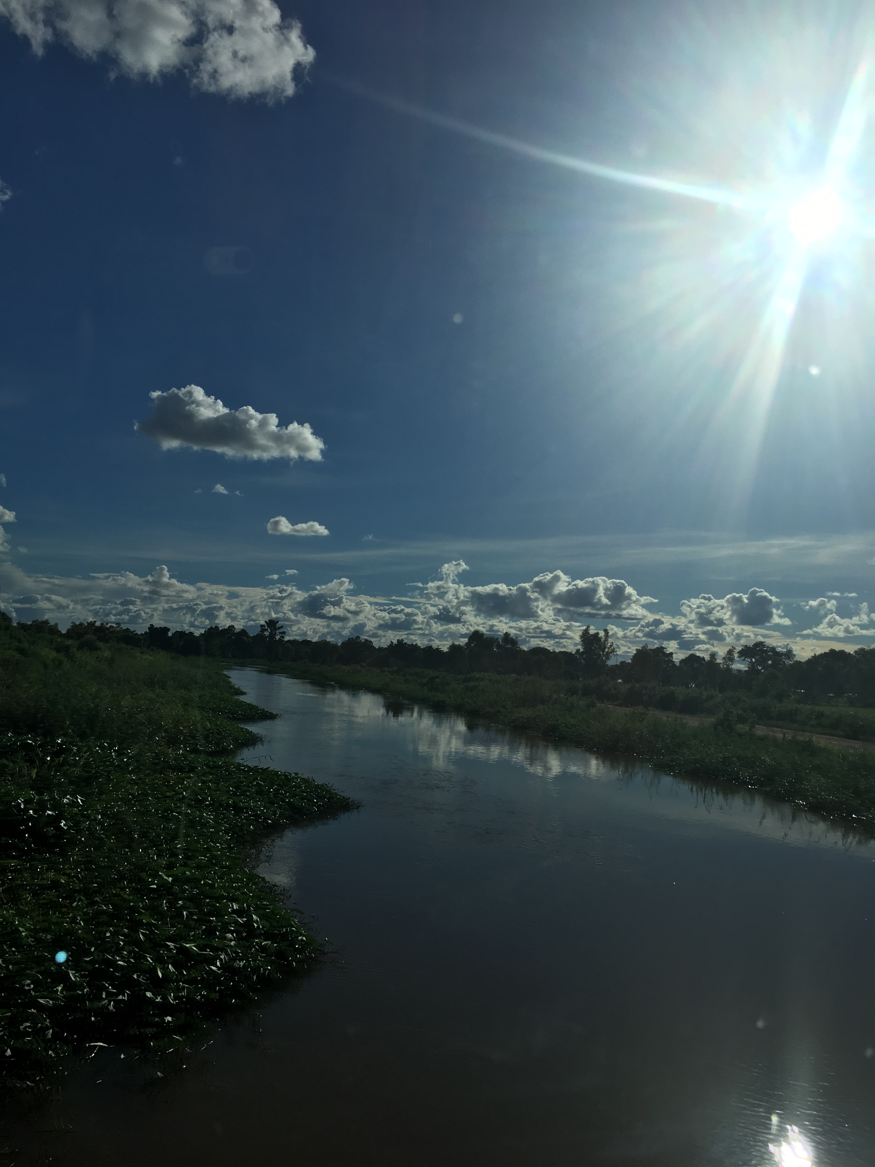 This is an image with the theme "Africa on the Move or Transport" from: Mali